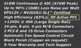 Scanned packaging of a PC Power and Cooling 600W Silencer PC power supply that I purchased. Using this to edit Wikipedia article on Active PFC. This is to show that PC power supplies manufactured and sold in recent years have active PFC. Highlighted the text with a yellow border for easy identification.